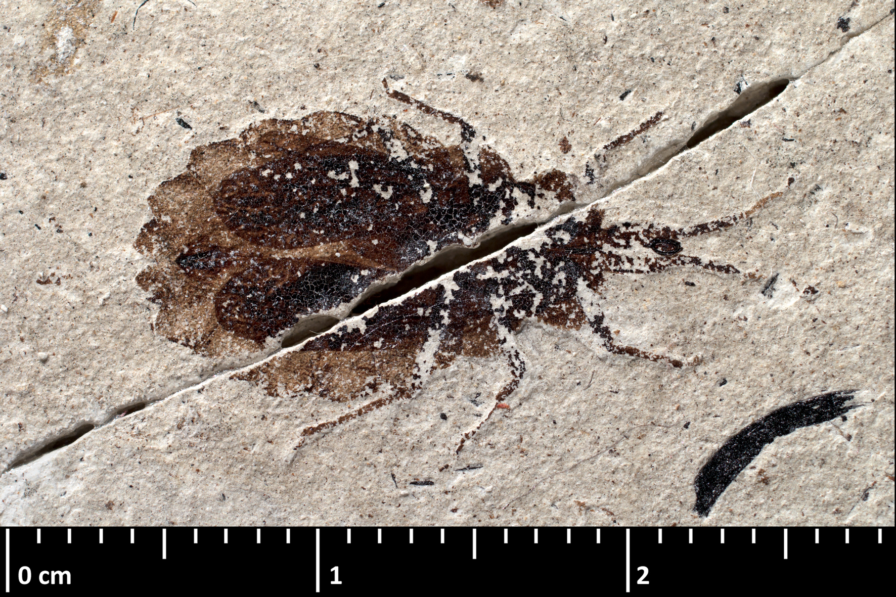 The Aradus andancensis holotype part specimen with direct lighting. Turolian, Miocene; Montagne d'Andance, Saint-Bauzile, Privas, France Muséum national d'Histoire naturelle specimen MNHN.F.A33748